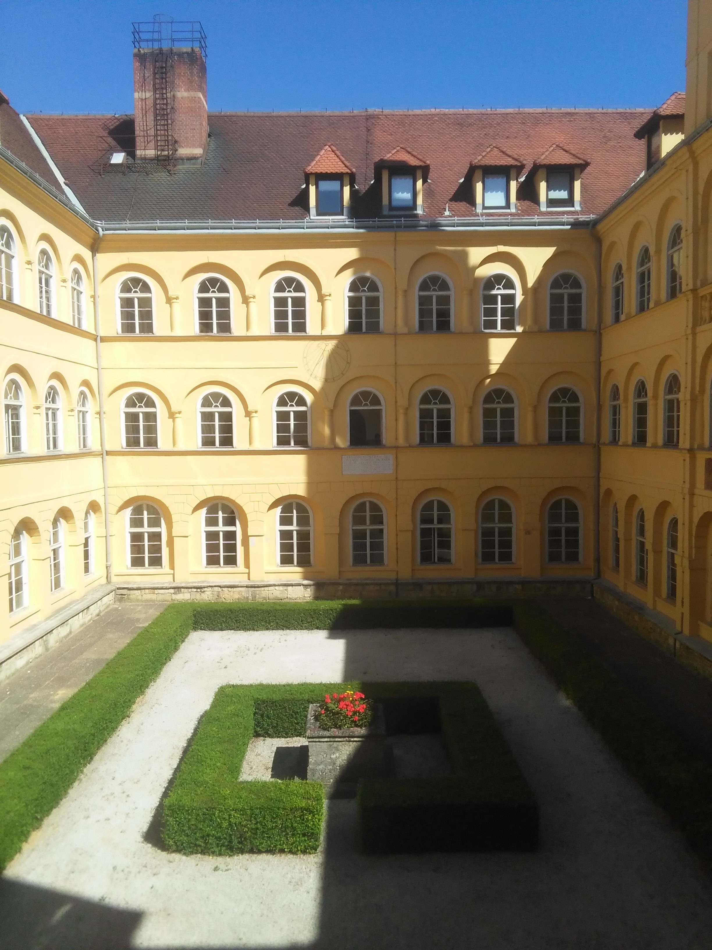 Klenovnik castle